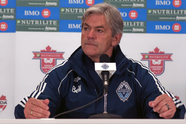 Picture of soccer player and coach, Teitur Thordarson. Wilson Wong photo.